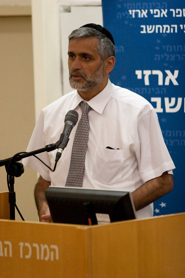 Eli Yishai